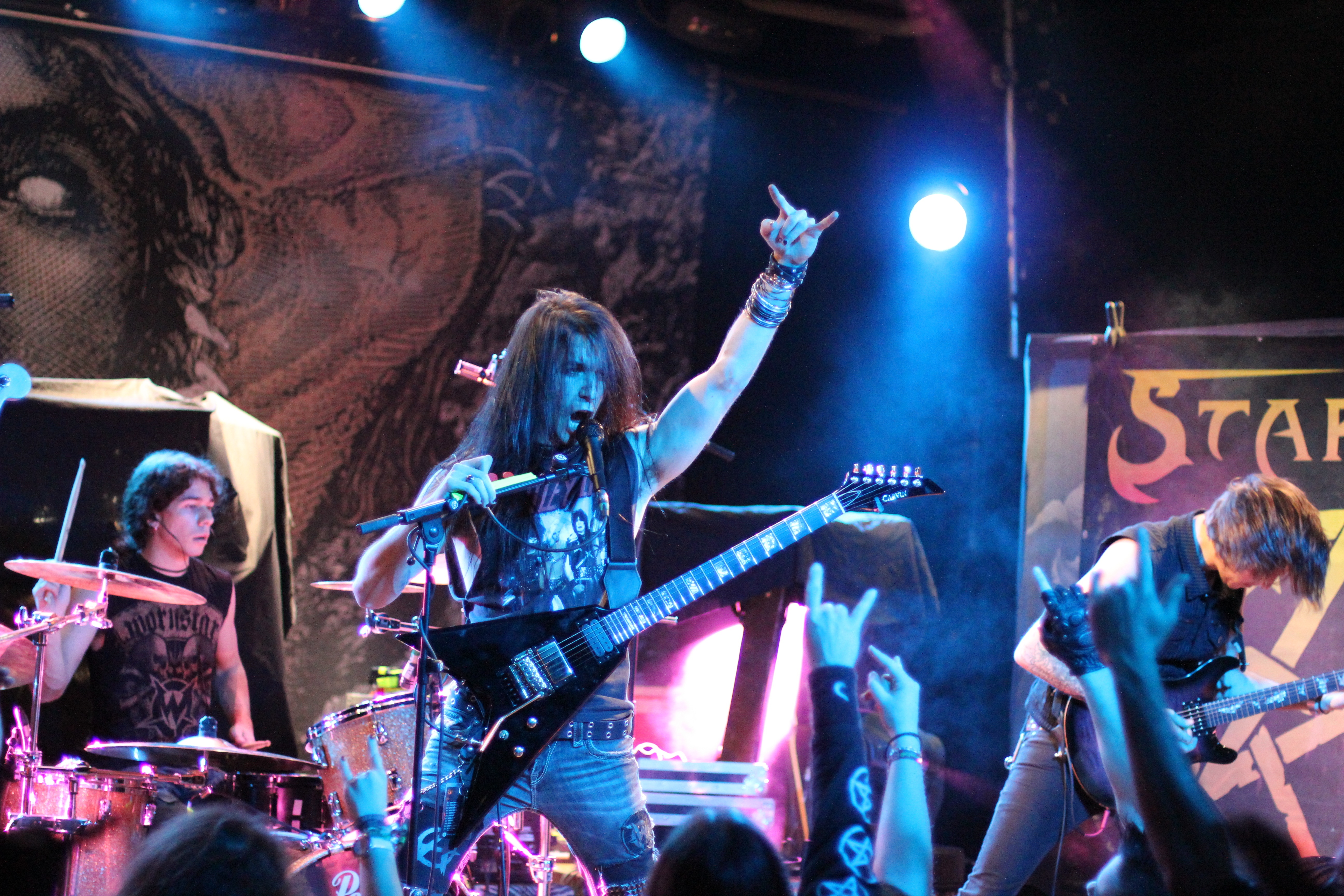 Starkill performing in 2013